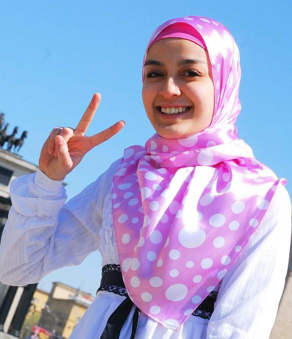 Woman of Malaysia at the Spring Fest 2009 in Moscow, Russia